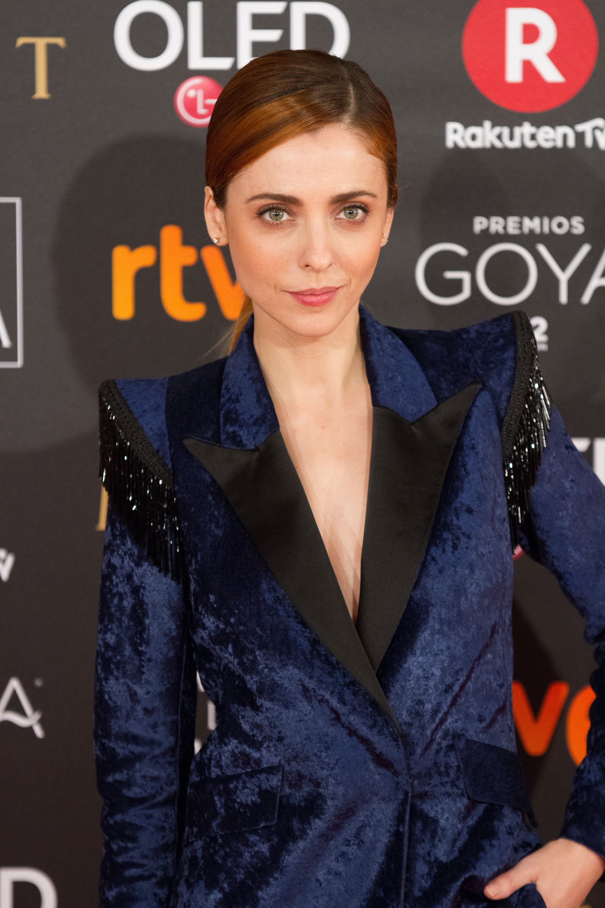 32nd Goya Awards, 2018.